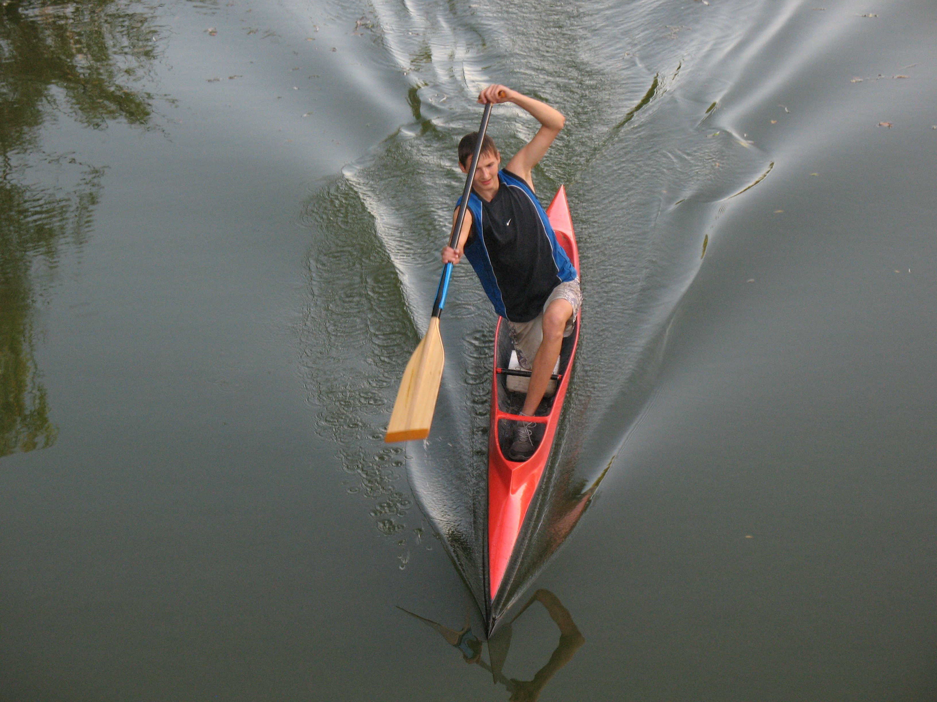 Canoe C-1 in Kharkov River in Kharkov City.